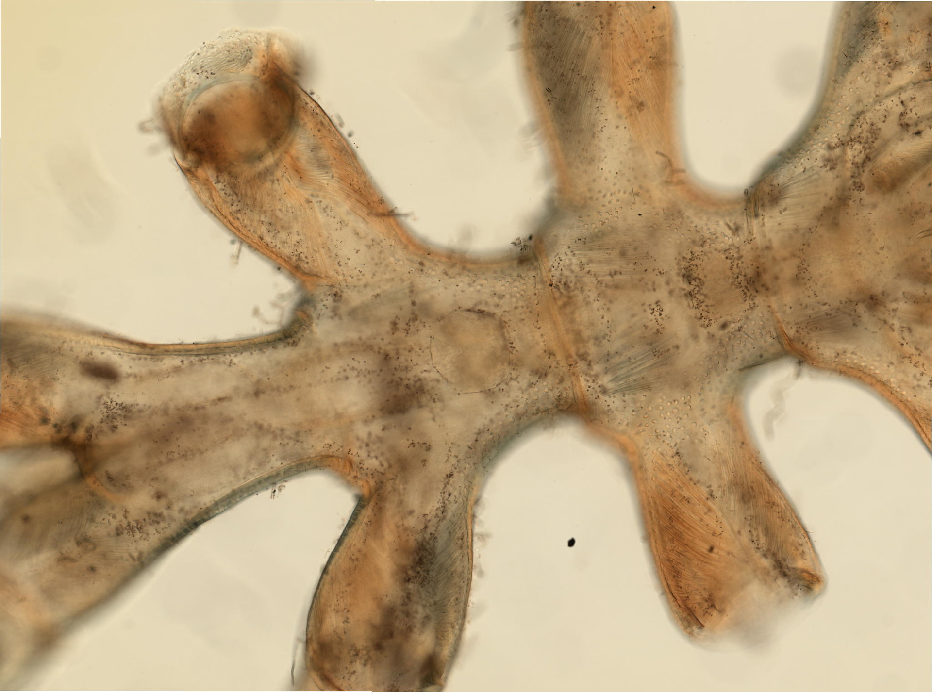 PRESERVED_SPECIMEN; FEMALE; ; microslide; ; IZ number 98271; lot count 1; Microslide 01, balsam, whole mount; female